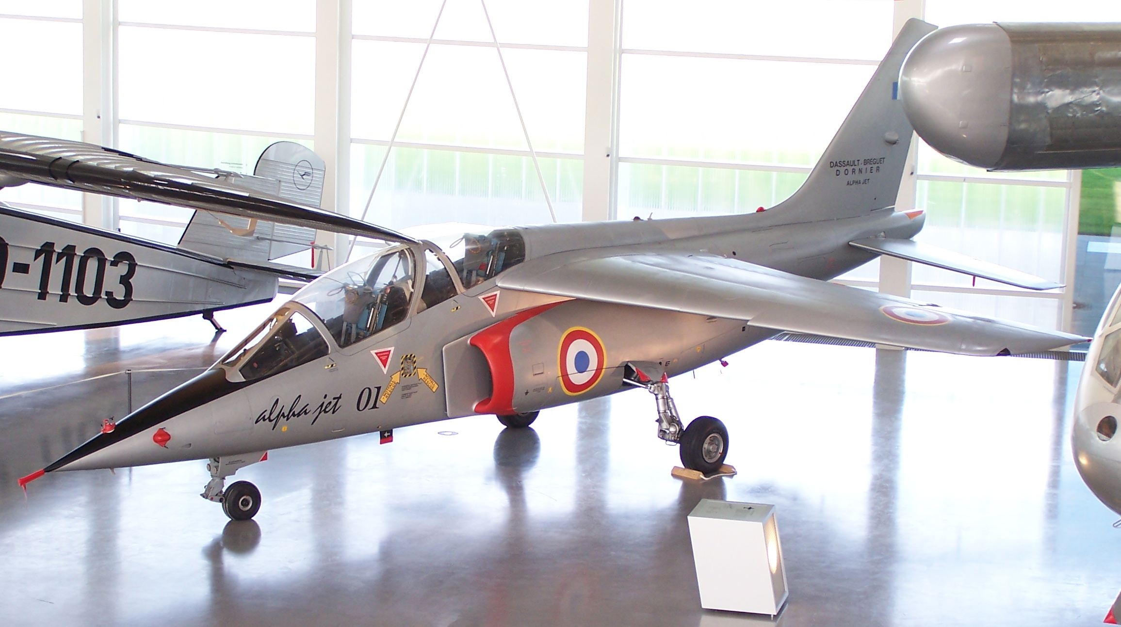 Alpha Jet 01 at Dornier Museum